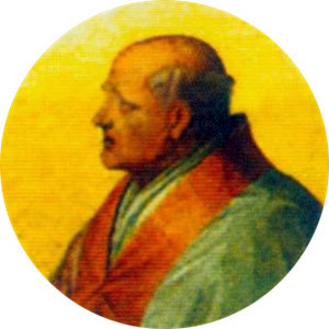 Portait of Pope Benedict VII in the Basilica of Saint Paul Outside the Walls, Rome